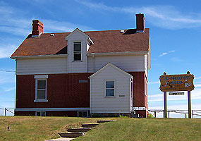 Grand Marais MI Harbor Light Keepers House